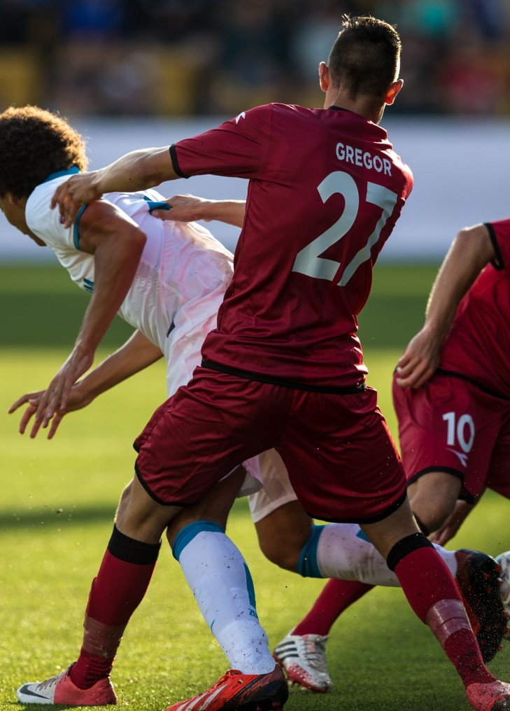 Pascal Gregor